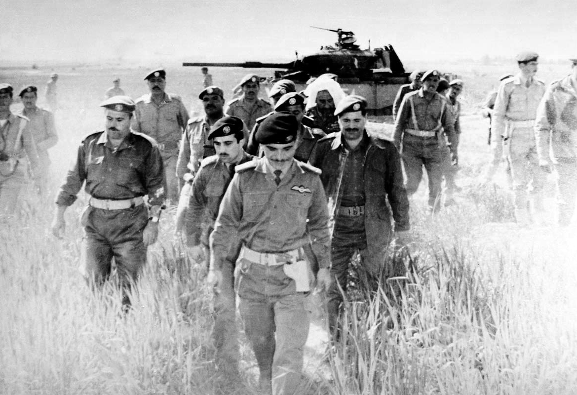 Al Karama Battle Aftermath 21 March 1968